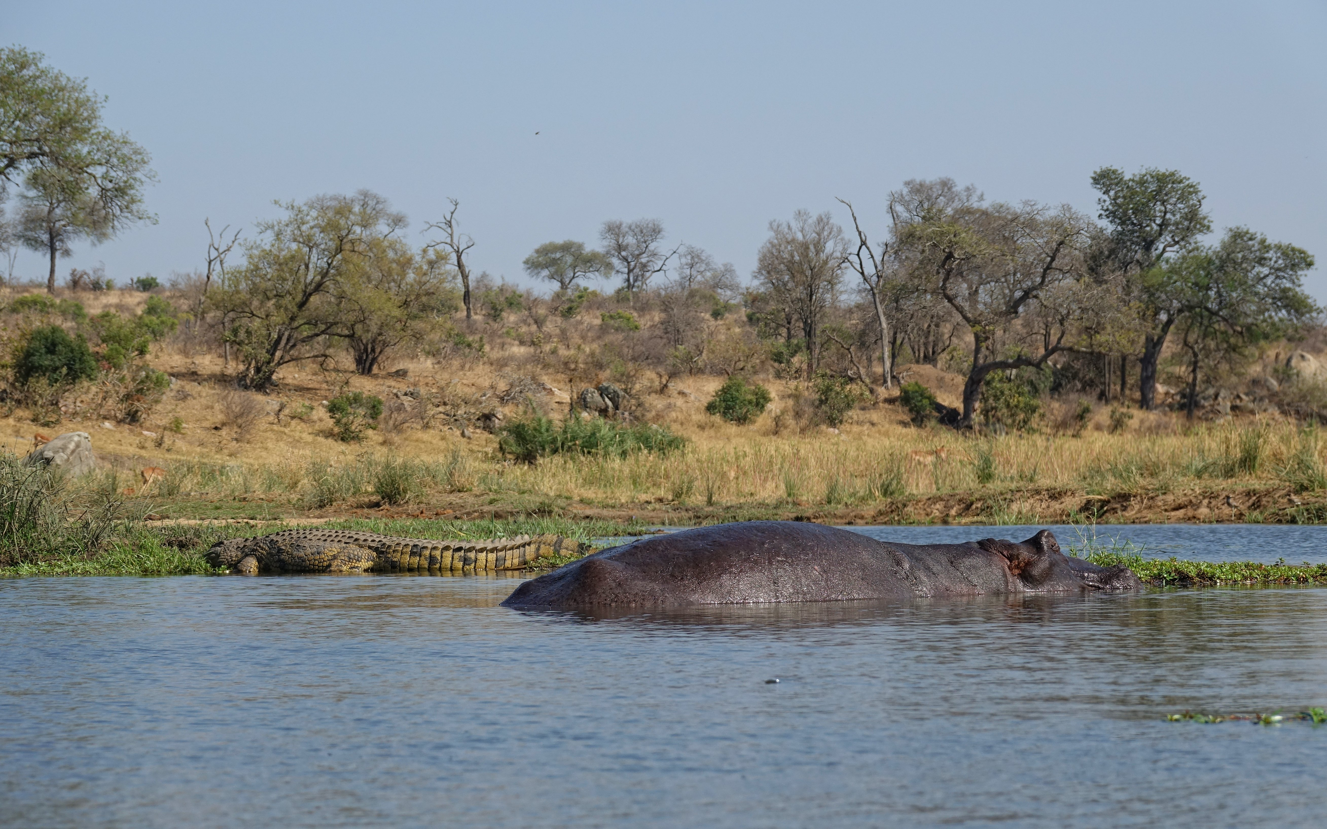 Nile Crocodile and Hippopotamus coexisting in a river in Kruger National Park, South Africa.